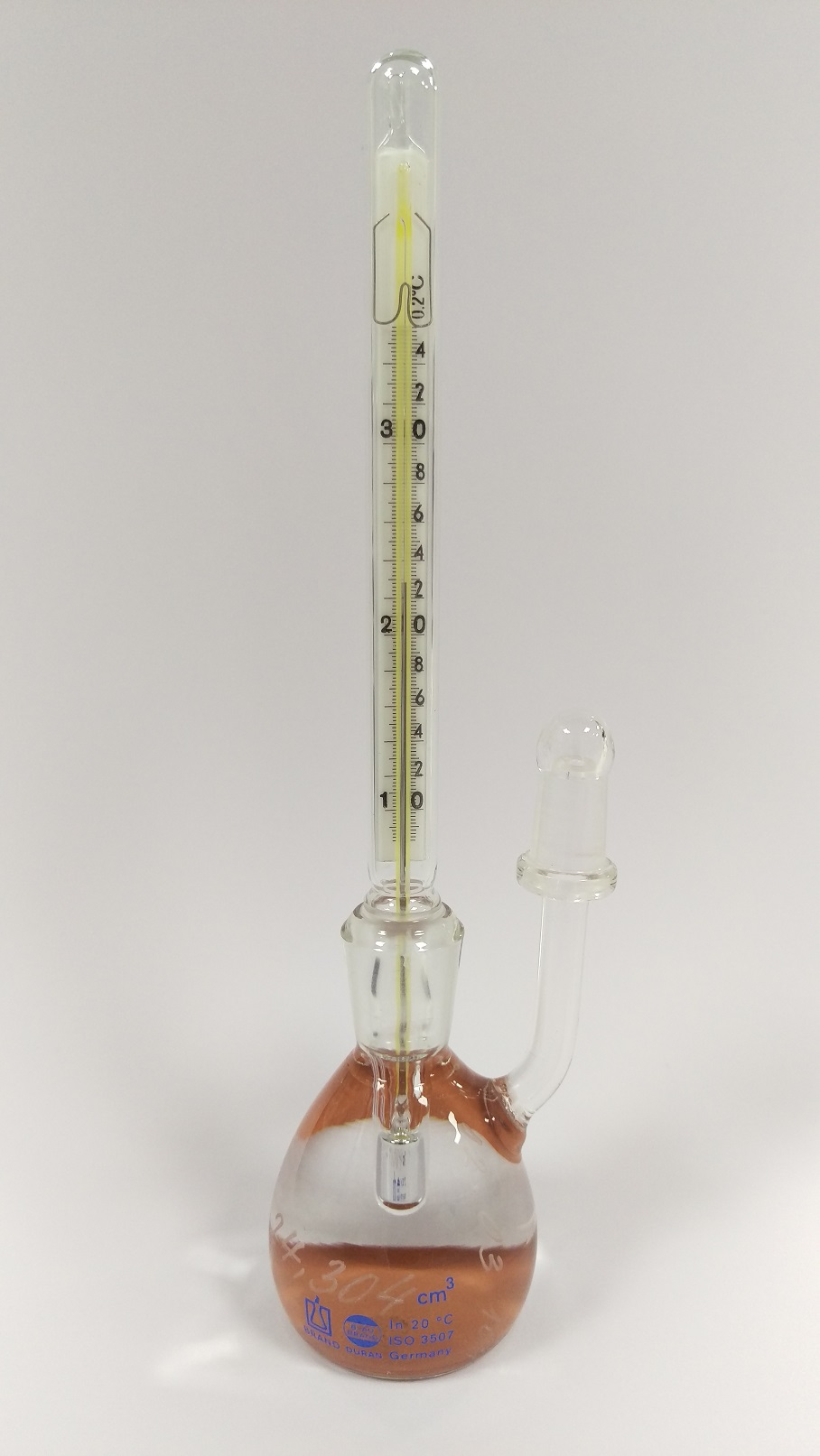 Pycnometer with thermometer and cap to reduce evaporation, filled with iso-propanol and copper-particles